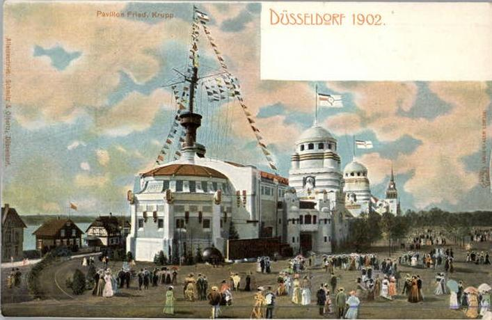 t